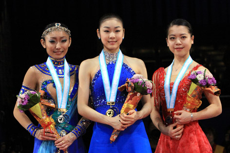 From left: Miki Ando(2nd), Kim Yu-Na(1st), Akiko Suzuki(3rd).